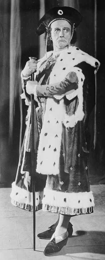 Polish opera singer Adamo Didur (1874-1946) as Gesler in Rossini's William Tell.